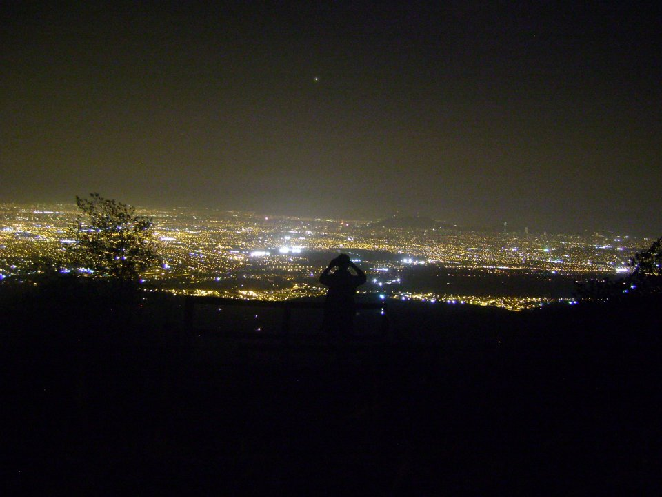 Vista nocturna Bosque Panul Abril 2012